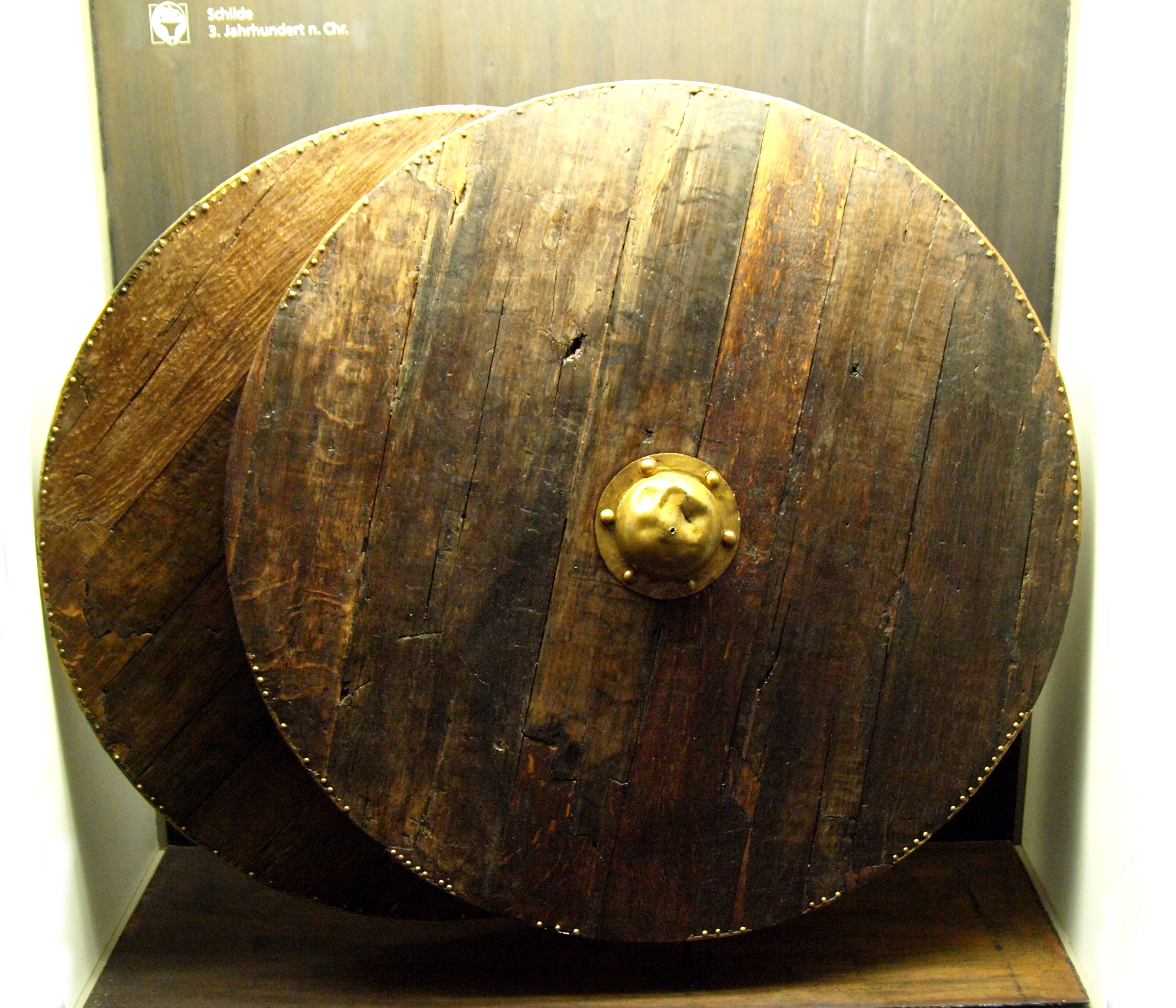 Two plain wooden shields with bosses of bronze from Thorsberg moor near Süderbrarup Anglia, Schleswig-Holstein, Germany. Dating to 3rd century A.D.